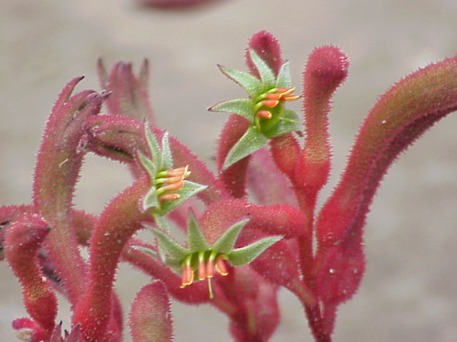 Species: Anigozanthos flavidus Family: Haemodoraceae Image No. 5